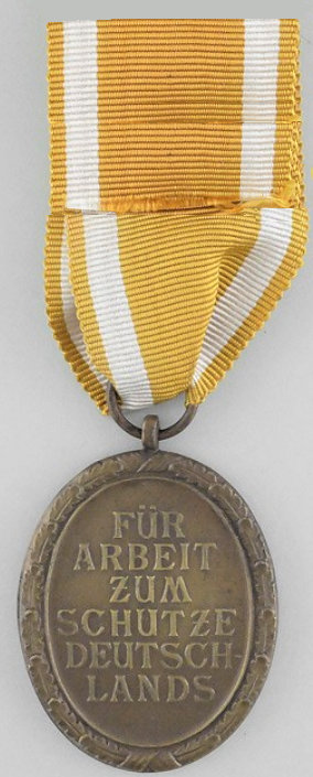 German Third Reich West Wall Medal, reverse. Awarded 1939-40.